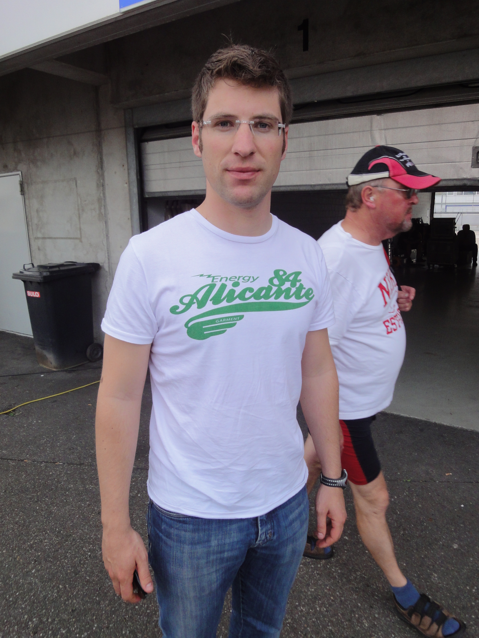 Michael Ammermüller: the photo was taken during 2010's ADAC GT Masters race weekend at Hockenheim